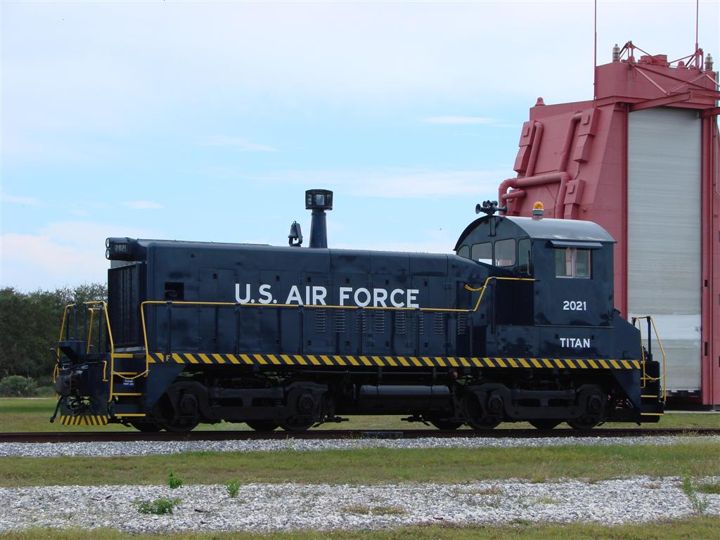 EMD SW8 switching locomotive, manufactured 1951. Retired from the United States Air Force Titan missile program, this locomotive is now on display at the Air Force Space & Missile Museum, Cape Canaveral Air Force Station, Florida.